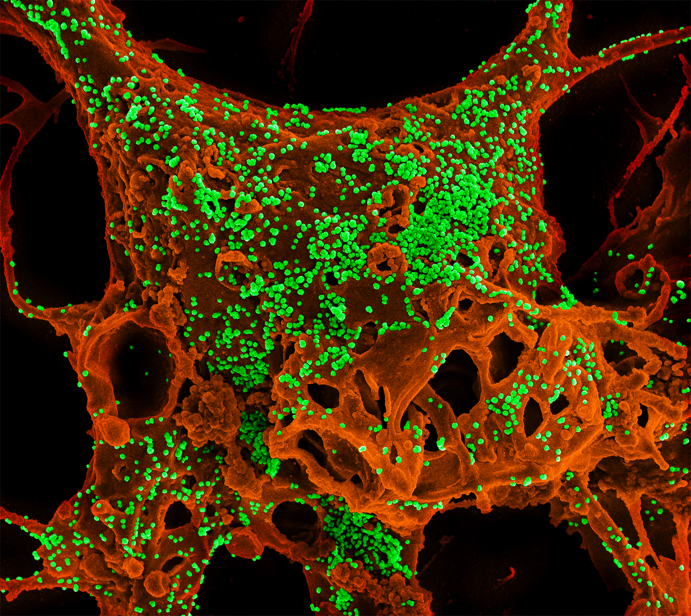 Color-enhanced scanning electron micrograph of Vero E6 cells infected with Middle East respiratory syndrome coronavirus (MERS-CoV). Credit: NIAID